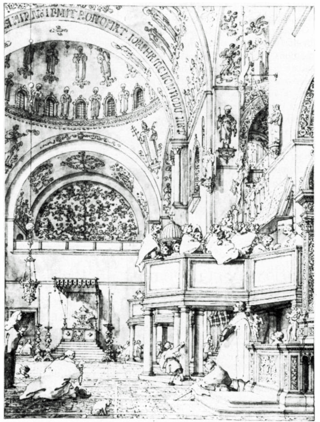 Drawing by Canaletto of the musicians' gallery in St Mark's Basilica, Venice.